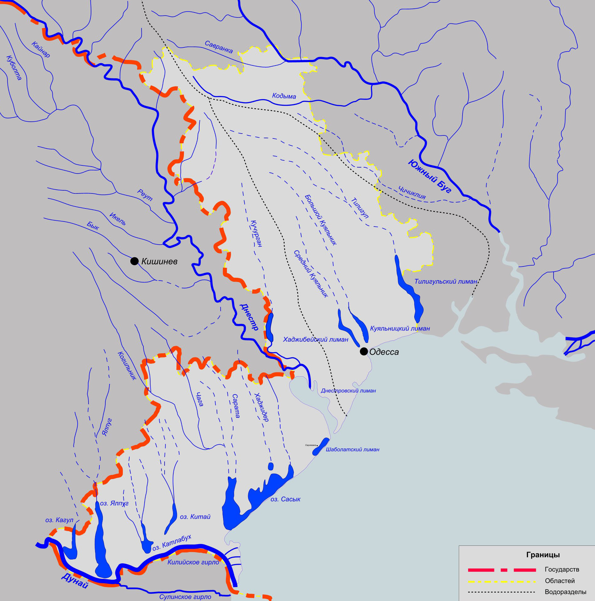 Rivers of odesskaya oblast, Ukraine